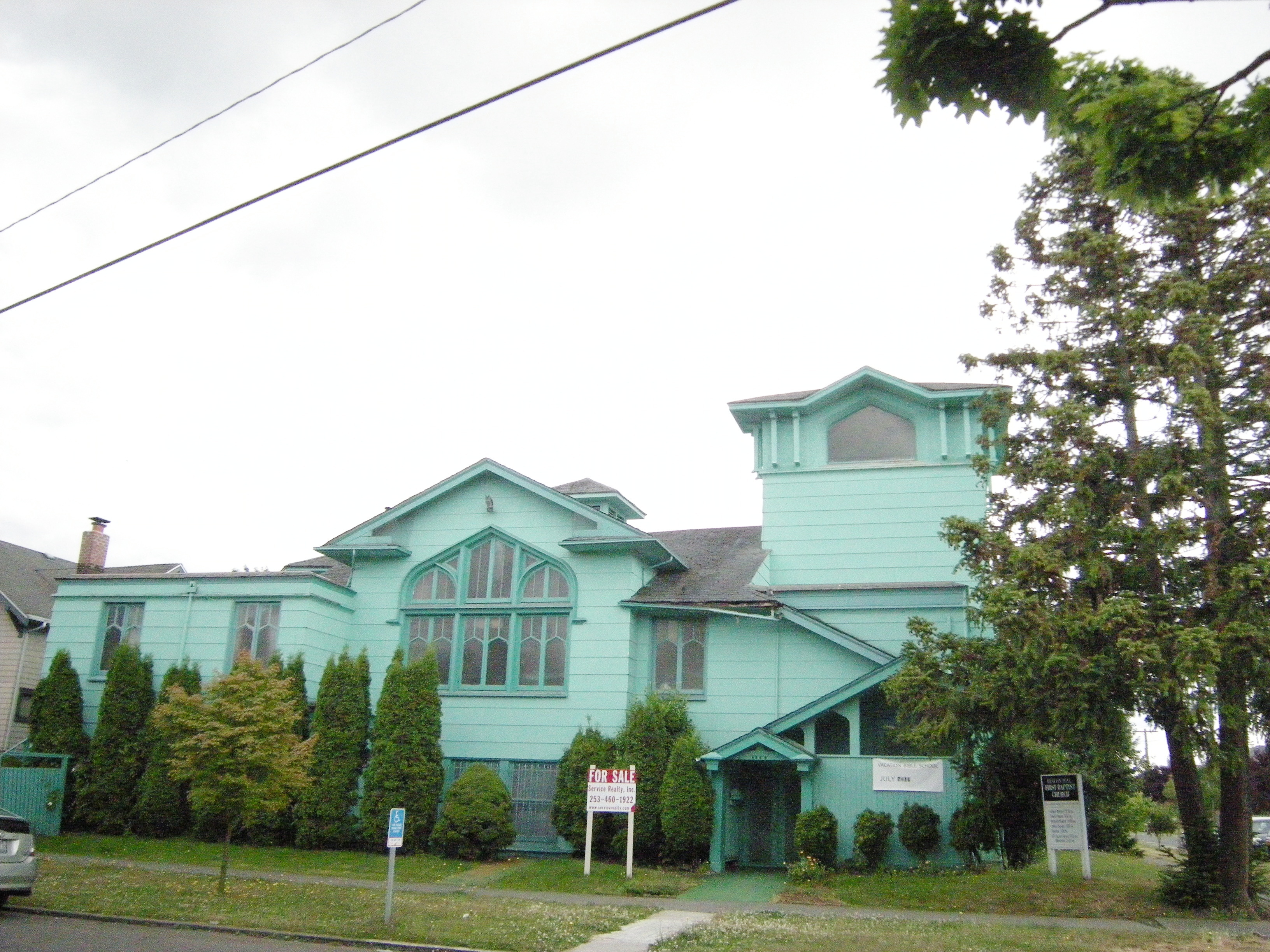 Beacon Hill First Baptist Church, Seattle, Washington, USA. The building has official status as a city landmark.